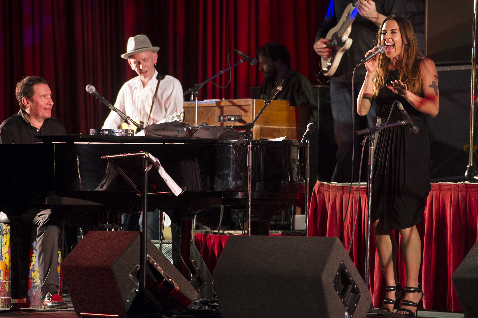 Jools Holland and Melanie C performing at the second Gibraltar International Jazz Festival held at the Queen's Cinema in October 2013.